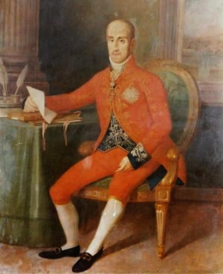 Portrait of Francisco de Almeida de Melo e Castro, 6th Count of Galveias (1758-1819)